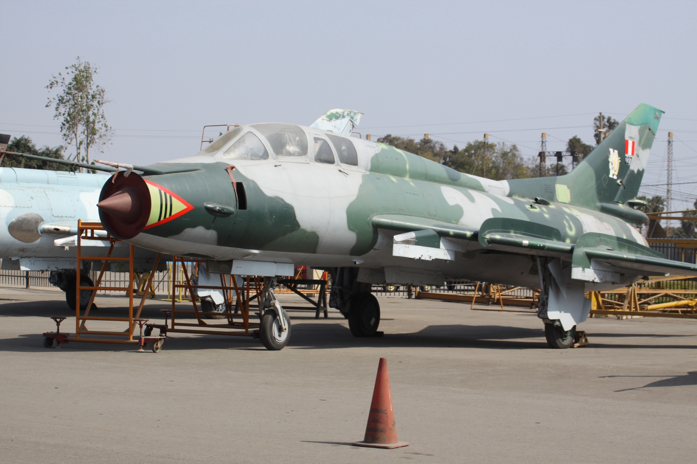 At Lima Las Palmas Airforce Base